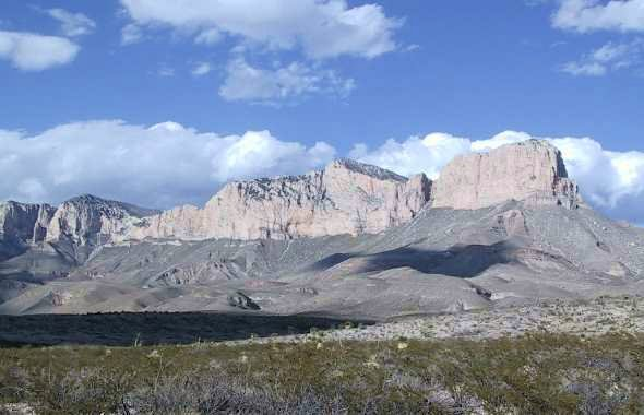 United States National Park Service photo of Guadalupe Peak and El Capitan, Texas